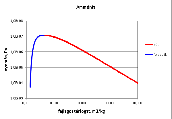 Pressure–volime diagram of ammonia, logarithmic axes